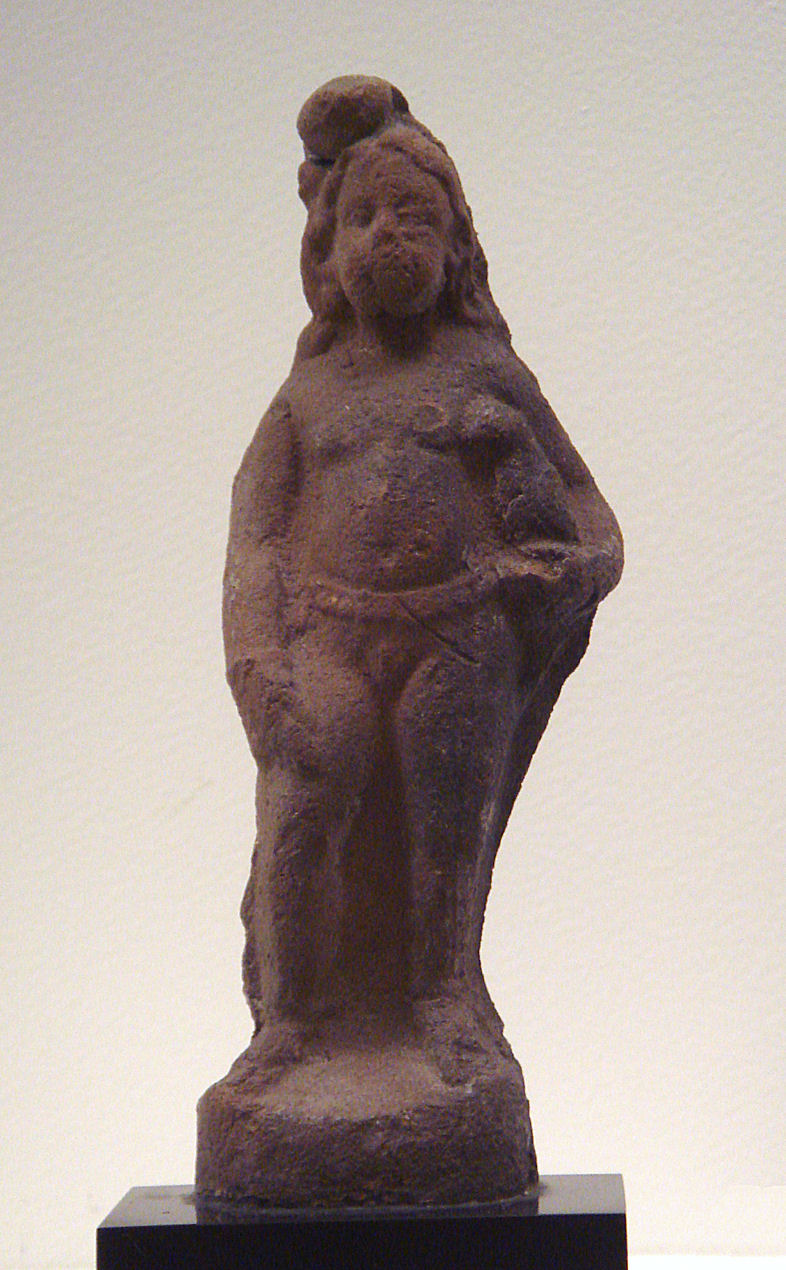 Child With Bird Veerampattinam Arikamedu, 1-2 Century CE